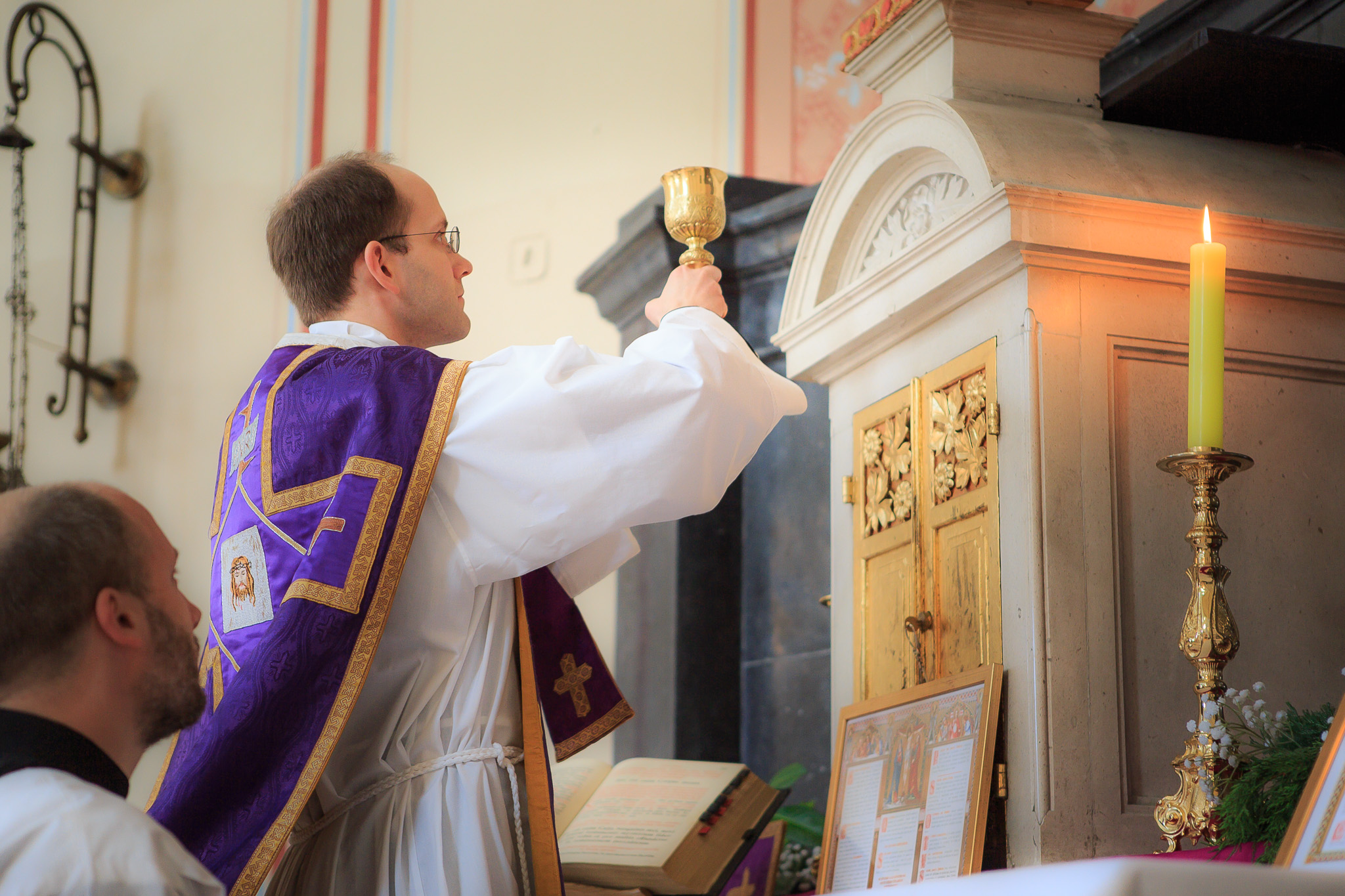 Traditional latin Mass celebrated by a priest of the Priestly Fraternity of st. Peter in Zagreb, Croatia